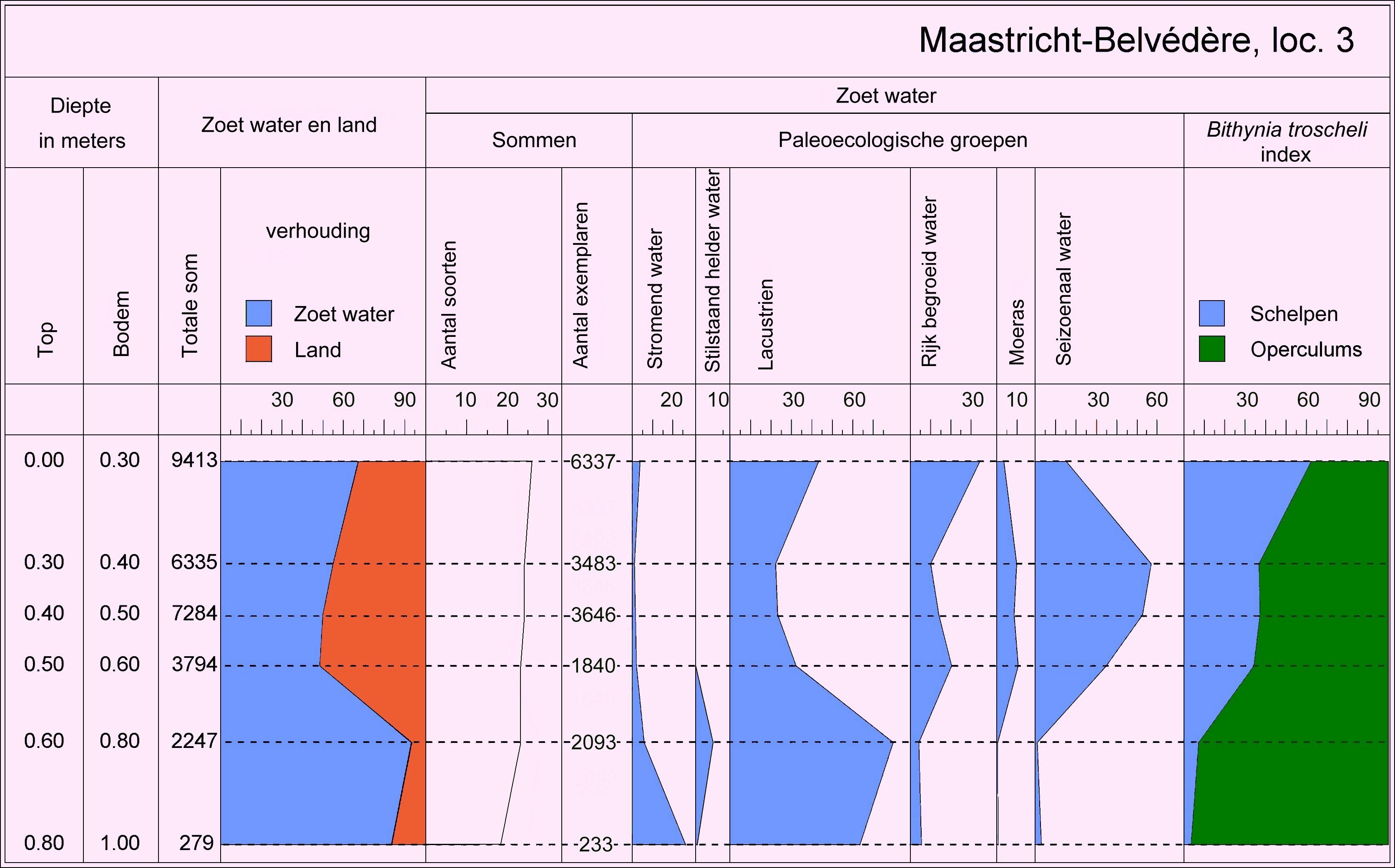 Maastricht-Belvédère, Site 3; Middle Pleistocene; Paleoecological diagram of molluscan freshwater fauna; Dutch text